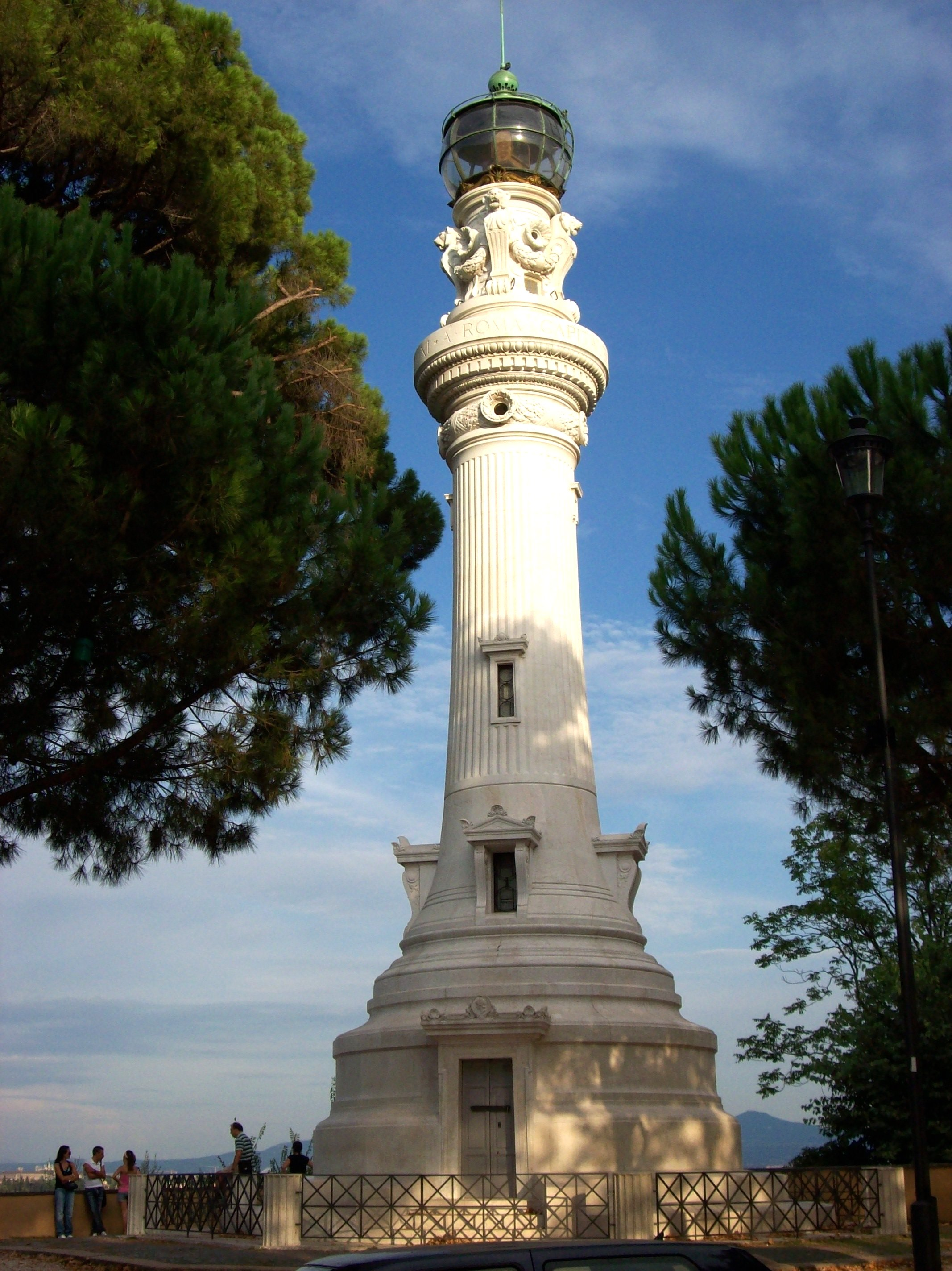 The Janiculum Lighthouse (or Roman Lighthouse) at the Janiculum Hill, Rome